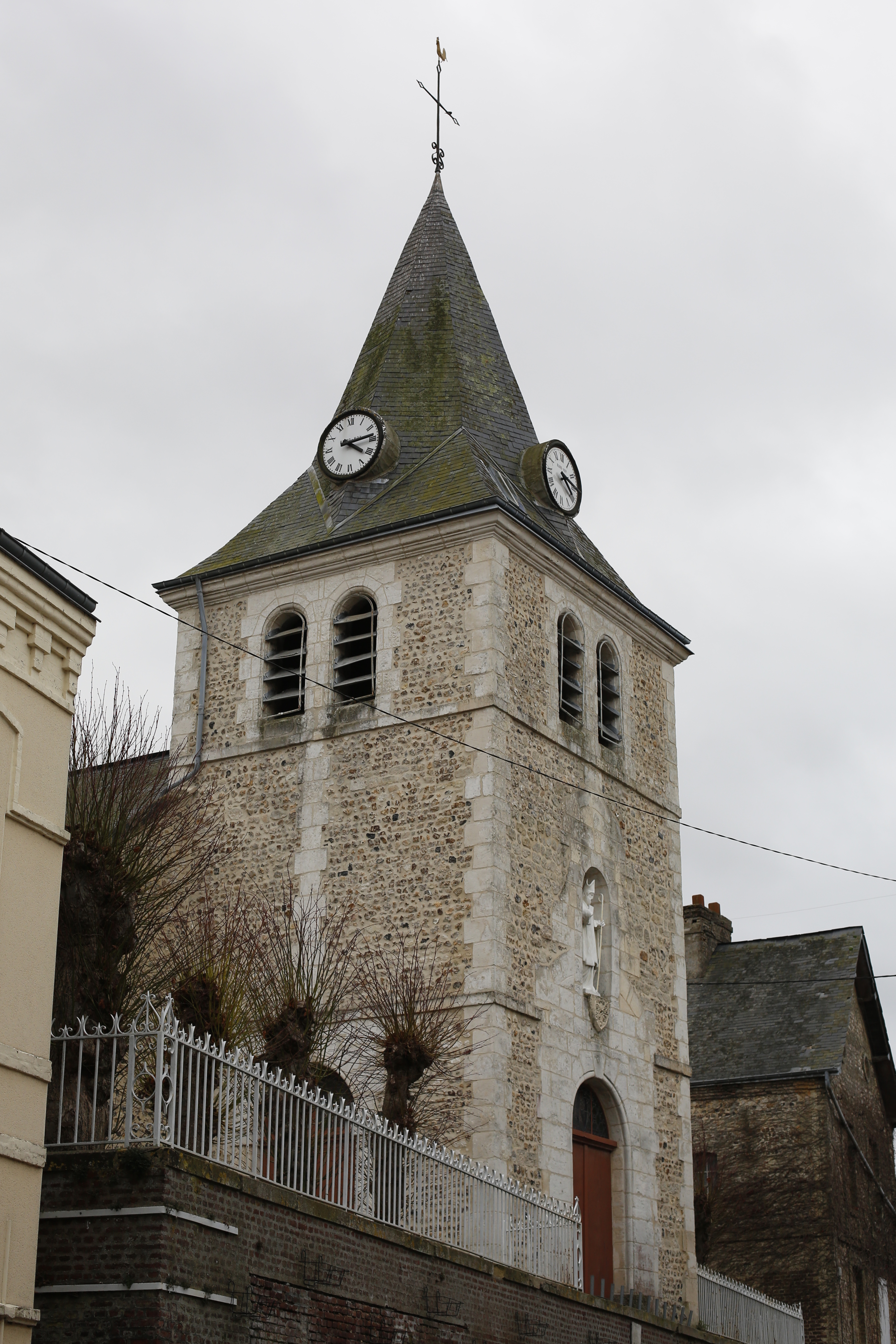 Church of Rolleville.